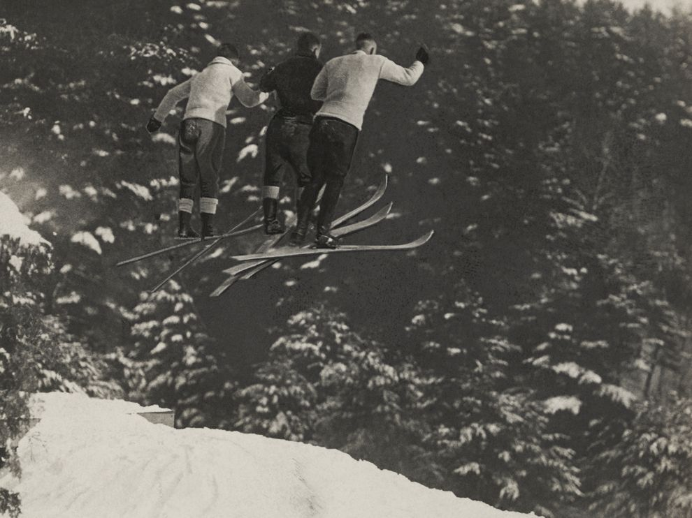 Three skiers jumping at the Winter Carnival organized by the outing club at Dartmouth College, Hanover, New Hampshire, USA. Published in Harris, Fred H. (February 1920). "Skiing Over the New Hampshire Hills". National Geographic 37 (2): 151–164. with caption "All Off Together: A ski threesome takes the air for the downward drop at the Dartmouth 'Mardi Gras of the North.'"